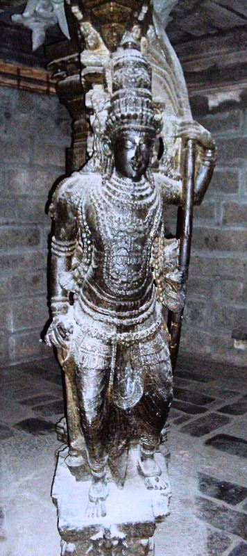 Manmadhan with sugarcane - Nellaipppar Temple Tirunelveli, India.